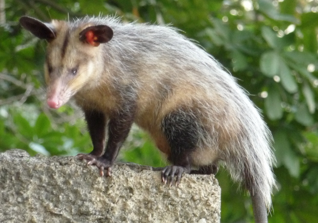 An urban Opossum found while walking in the streets of Caracas